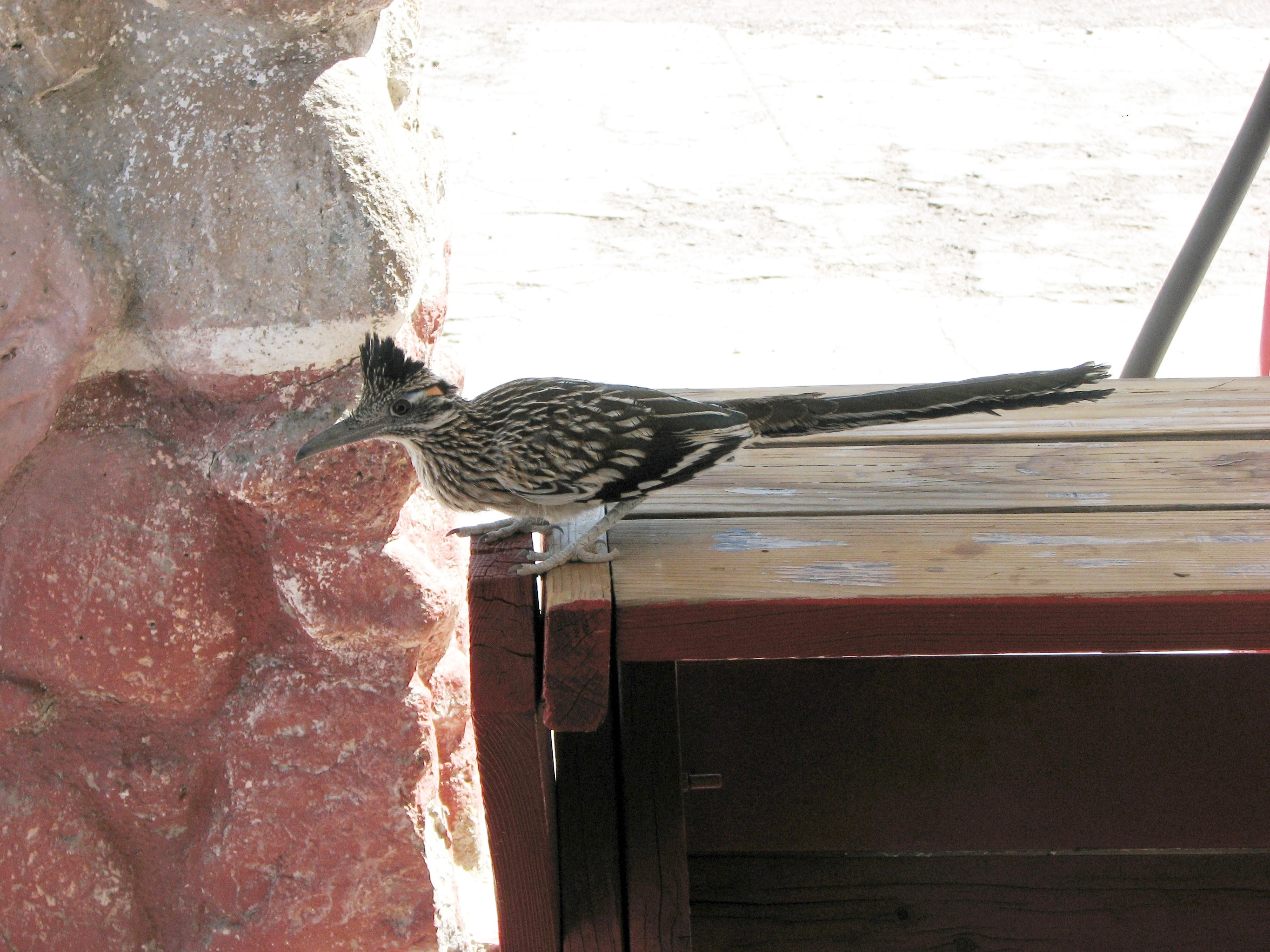 "Nedley", a Greater Roadrunner (Geococcyx californianus) photographed at Cool Springs on old Route 66 between Oatman and Kingman, Arizona.